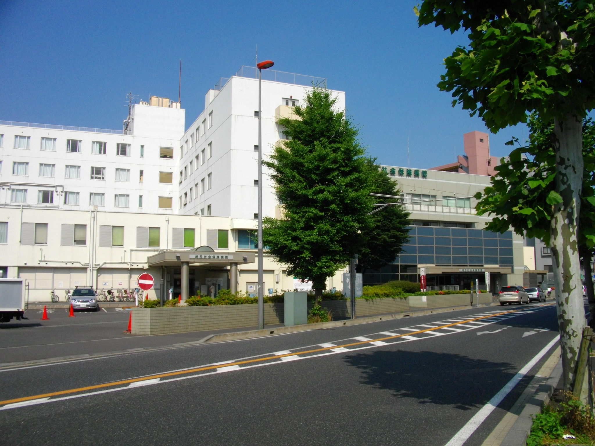 Saitama Social Insurance Hospital